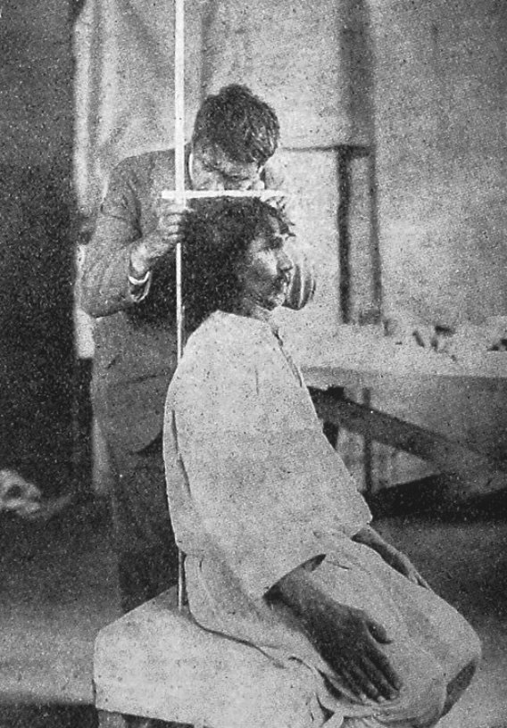 Photograph of the Romanian pathologist, anatomist and educator Francisc Rainer, performing anthropometry in Fundu Moldovei commune (during the rural sociology campaign organized by Dimitrie Gusti).